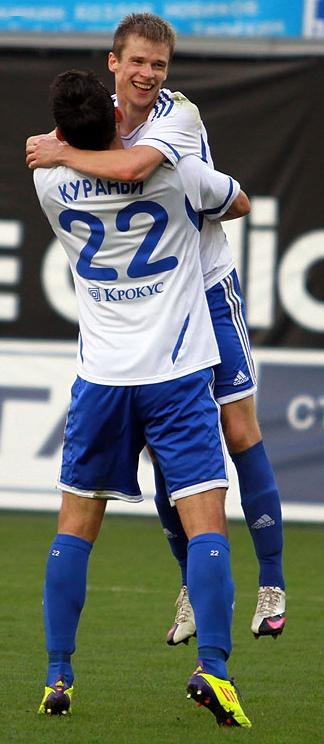 Pavel Nyakhaychyk celebrating his first goal for FC Dynamo Moscow with Kevin Kuranyi.